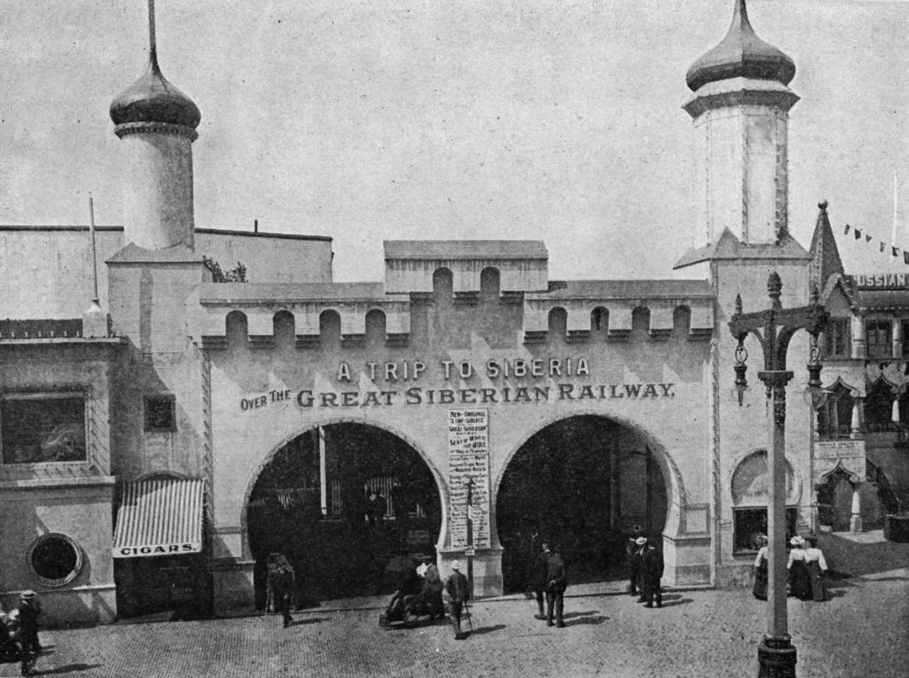 Building housing the Trans-Siberian Railway Panorama at the Louisiana Purchase Exposition